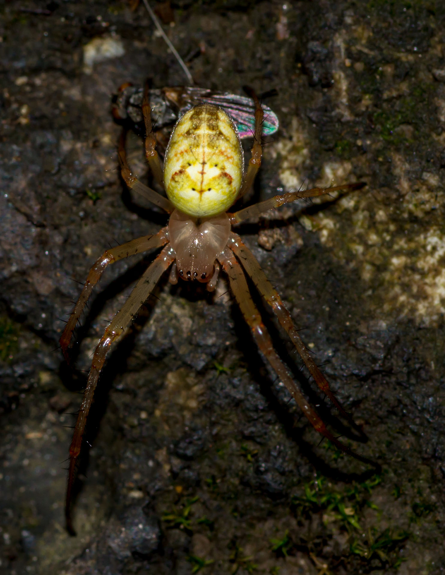 Female common orb weaver spider from the united kingdom.